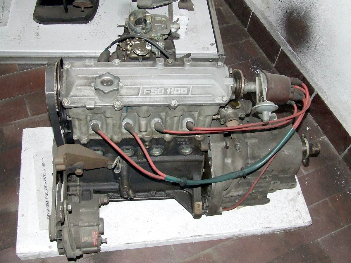 FSO Wars engine.